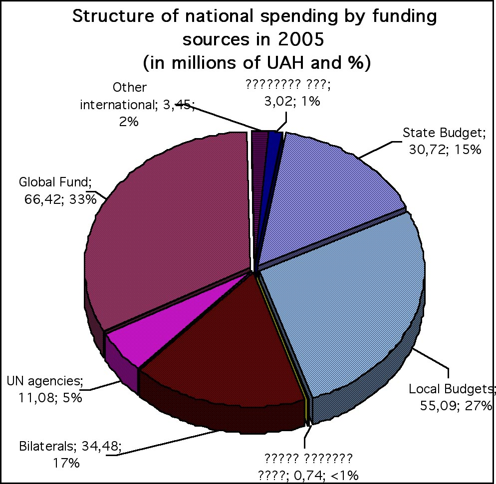 Structure of national anti-AIDS spending by funding; sources in 2005